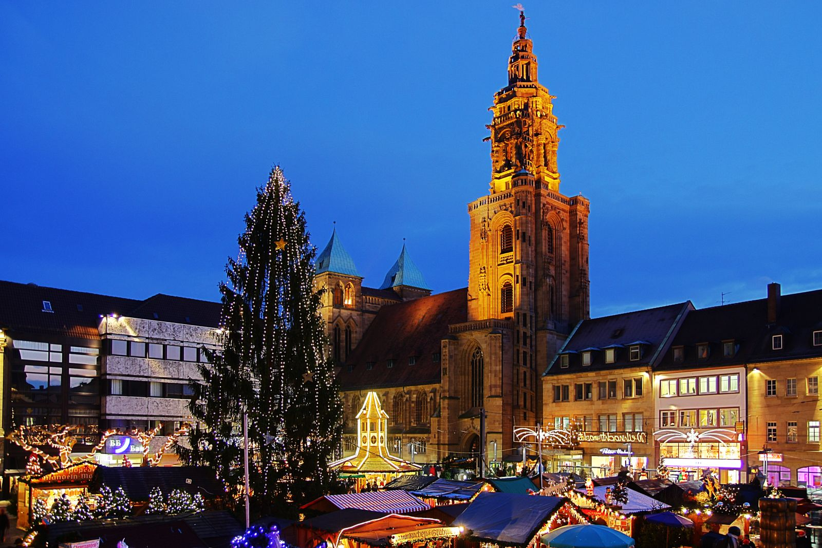 Christmas market of Heilbronn, view to the church St. Kilian